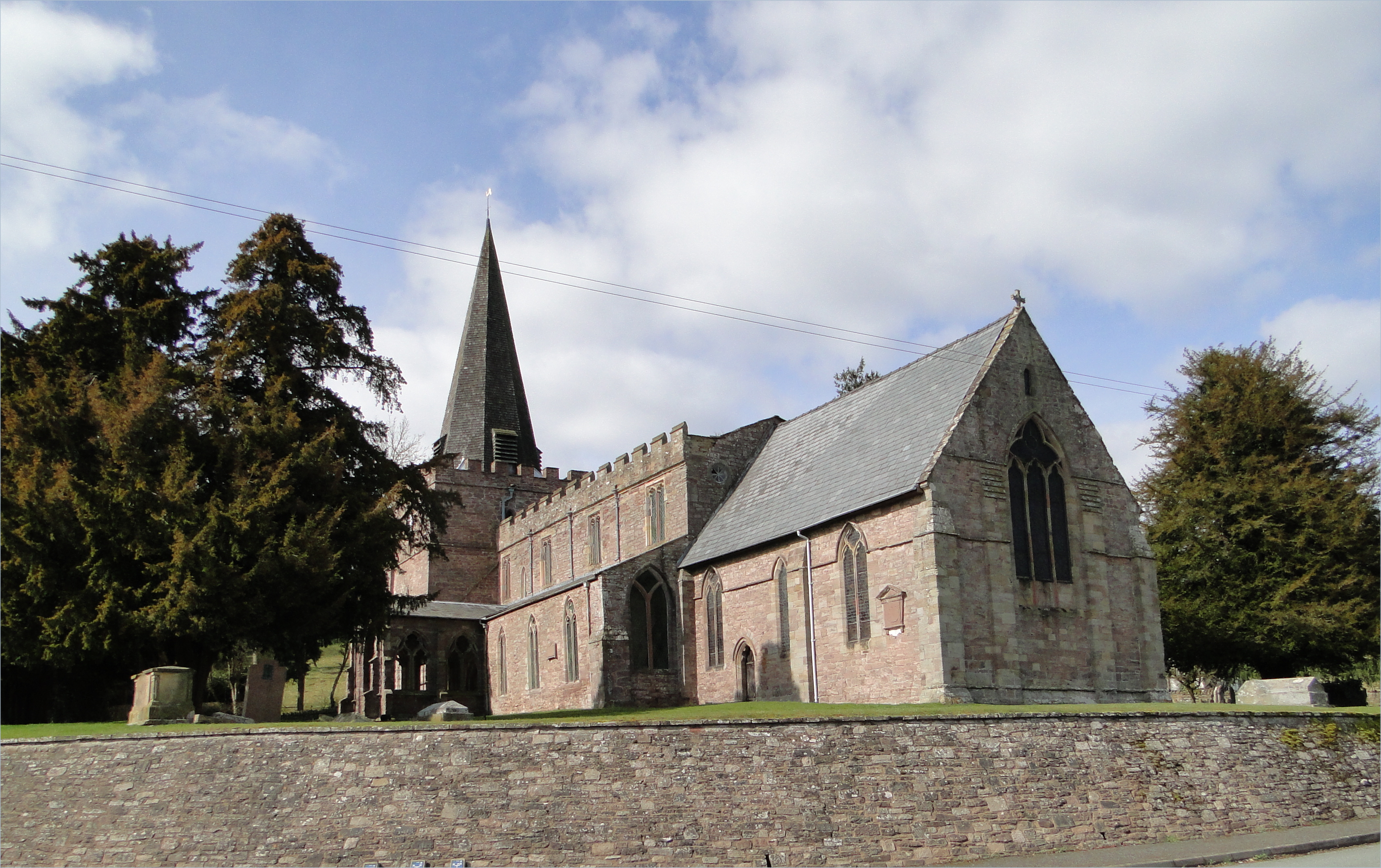 St Mary's parish church, Dilwyn, Herefordshire, seen from the southeast